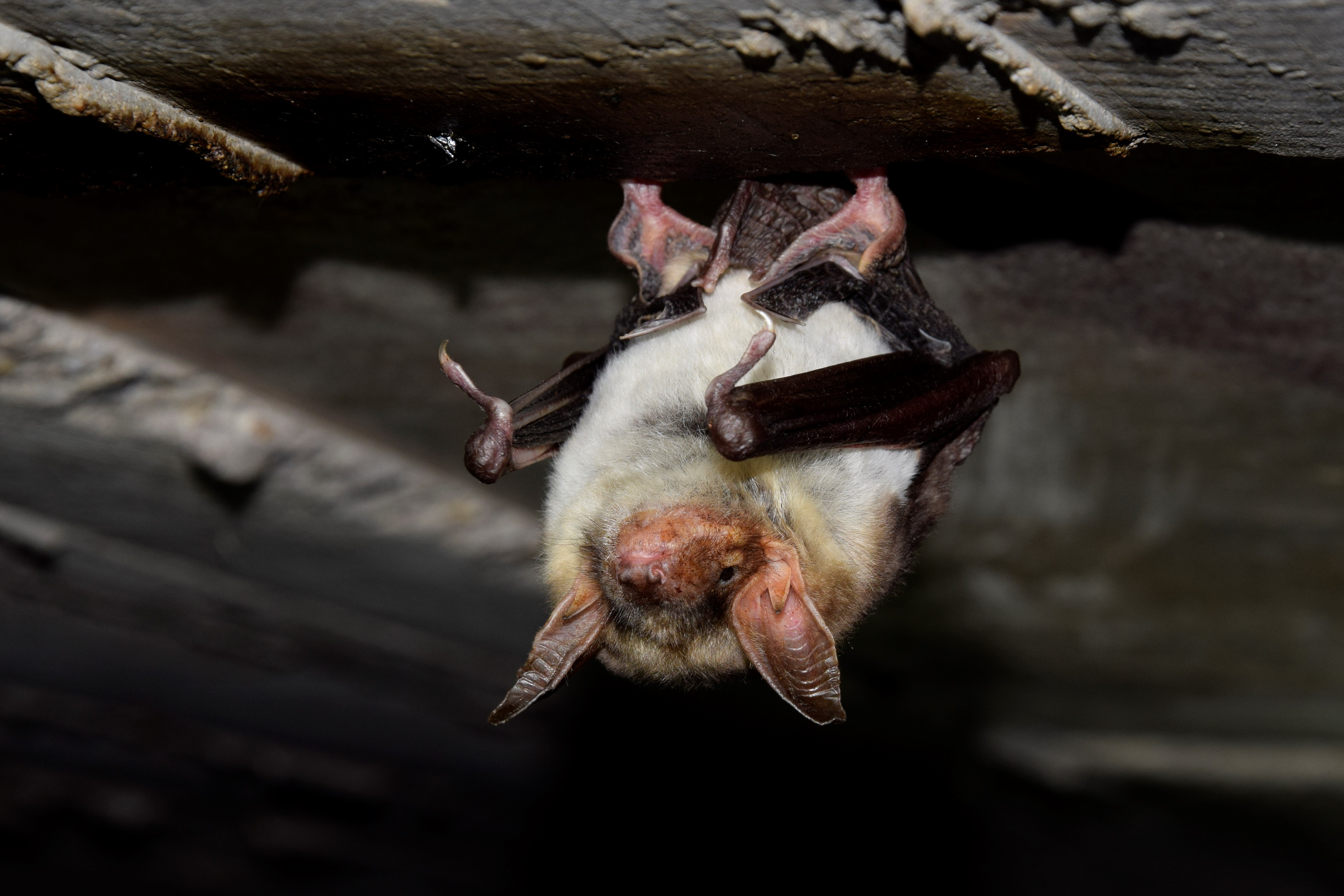 Male greater mouse-eared bat (Myotis myotis) roosting in a bridge (July 2017)